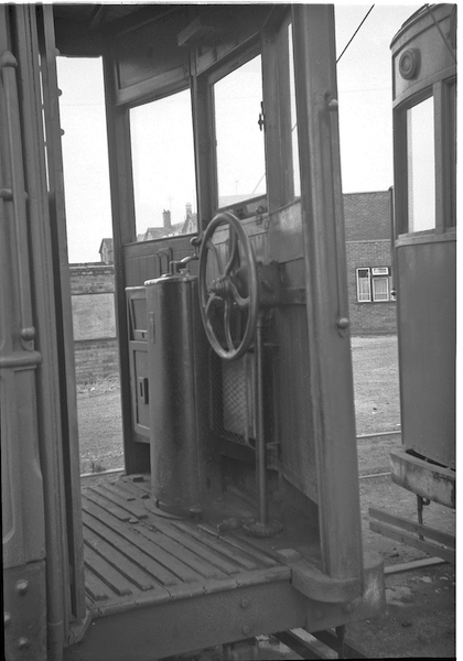 Grimsby & Immingham Electric Railway -car platform